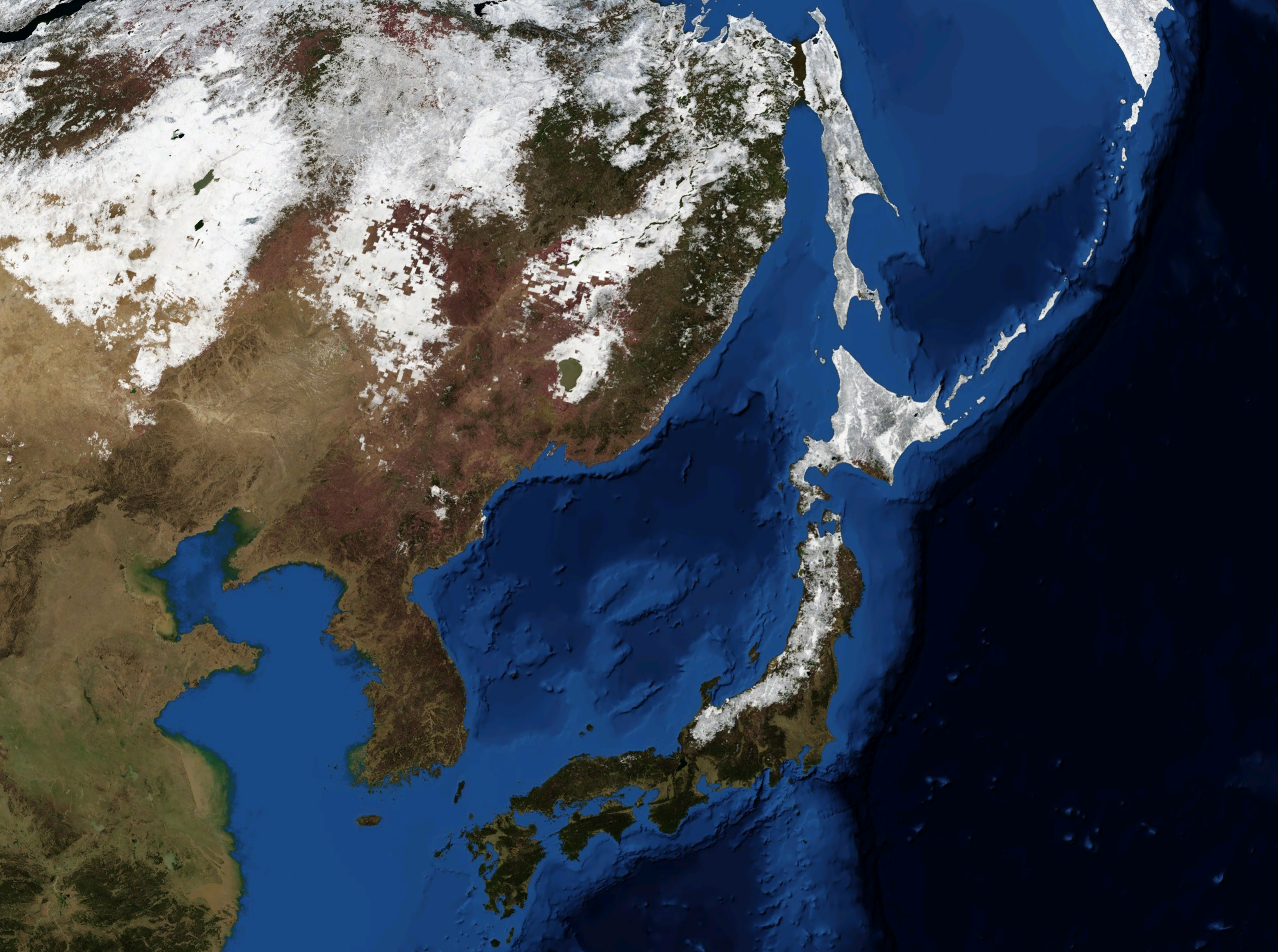 Sea of Japan (Bathymetry), Jan.